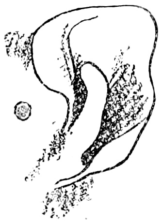 Ear of the common bent-wing bat (Miniopterus schreibersii).